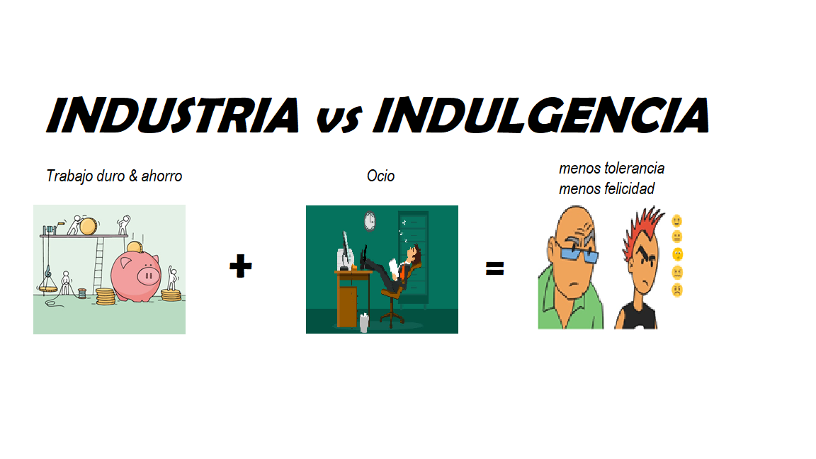 Michael Minkov desarrolló tres dimensiones culturales,basándose en varias disciplinas, incluyendo la genética y la teoría de la personalidad. Industria vs Indulgencia es una de las nuevas dimensiones planteadas por este autor.